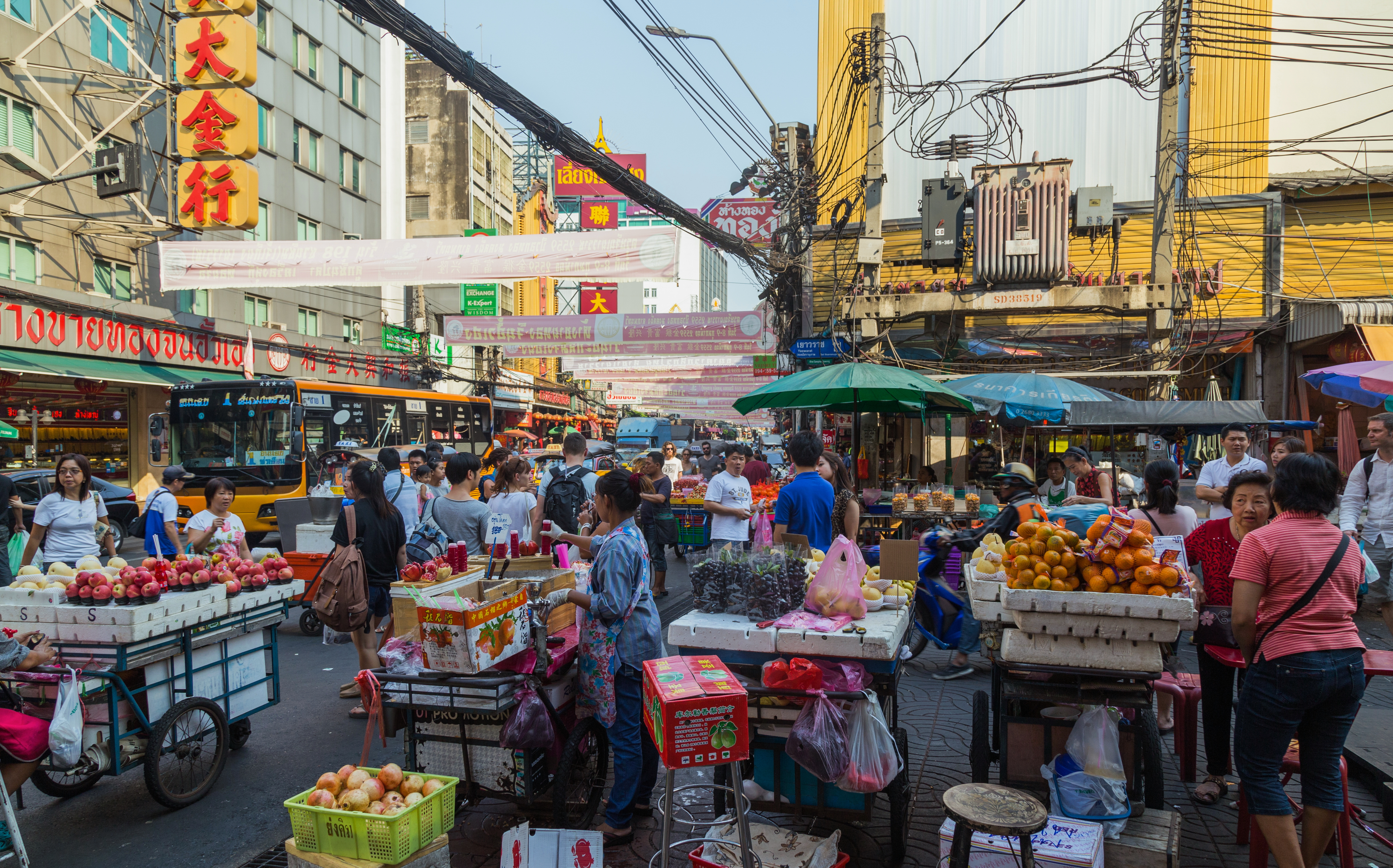 Street food vendors. Yaowarat Road. Samphanthawong District, Bangkok, Thailand.